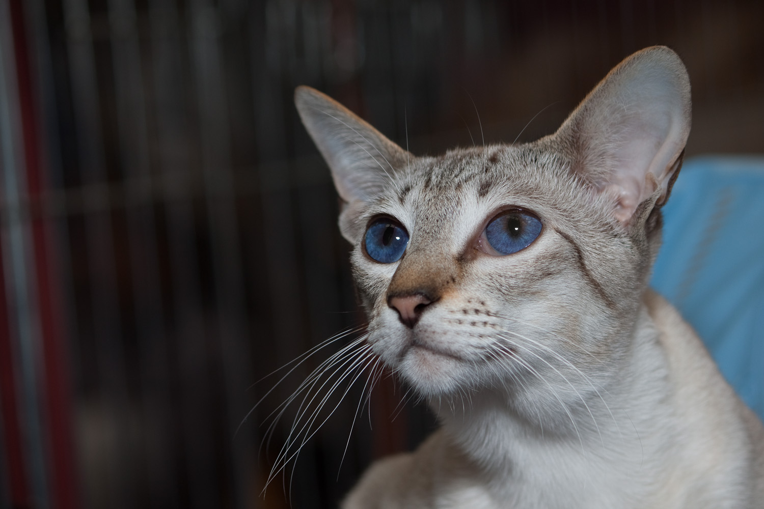 Male siamese cat Seal Tabby Silver